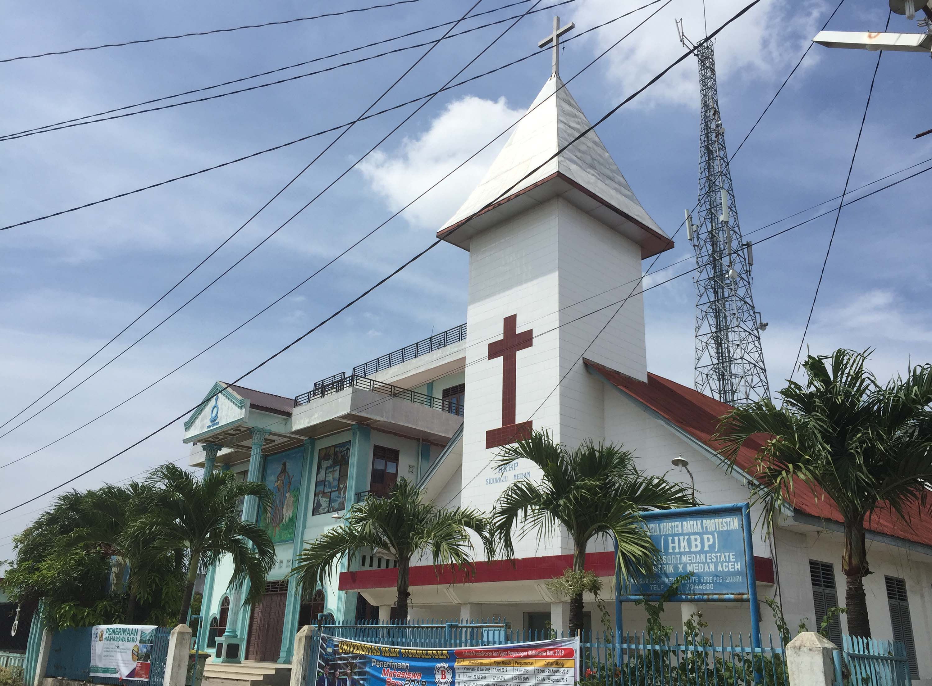 HKBP Sidorejo, Res. Medan Estate Church in Bantan Timur, Medan Tembung, Medan